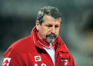 Ion Marin at Dinamo Bucharest